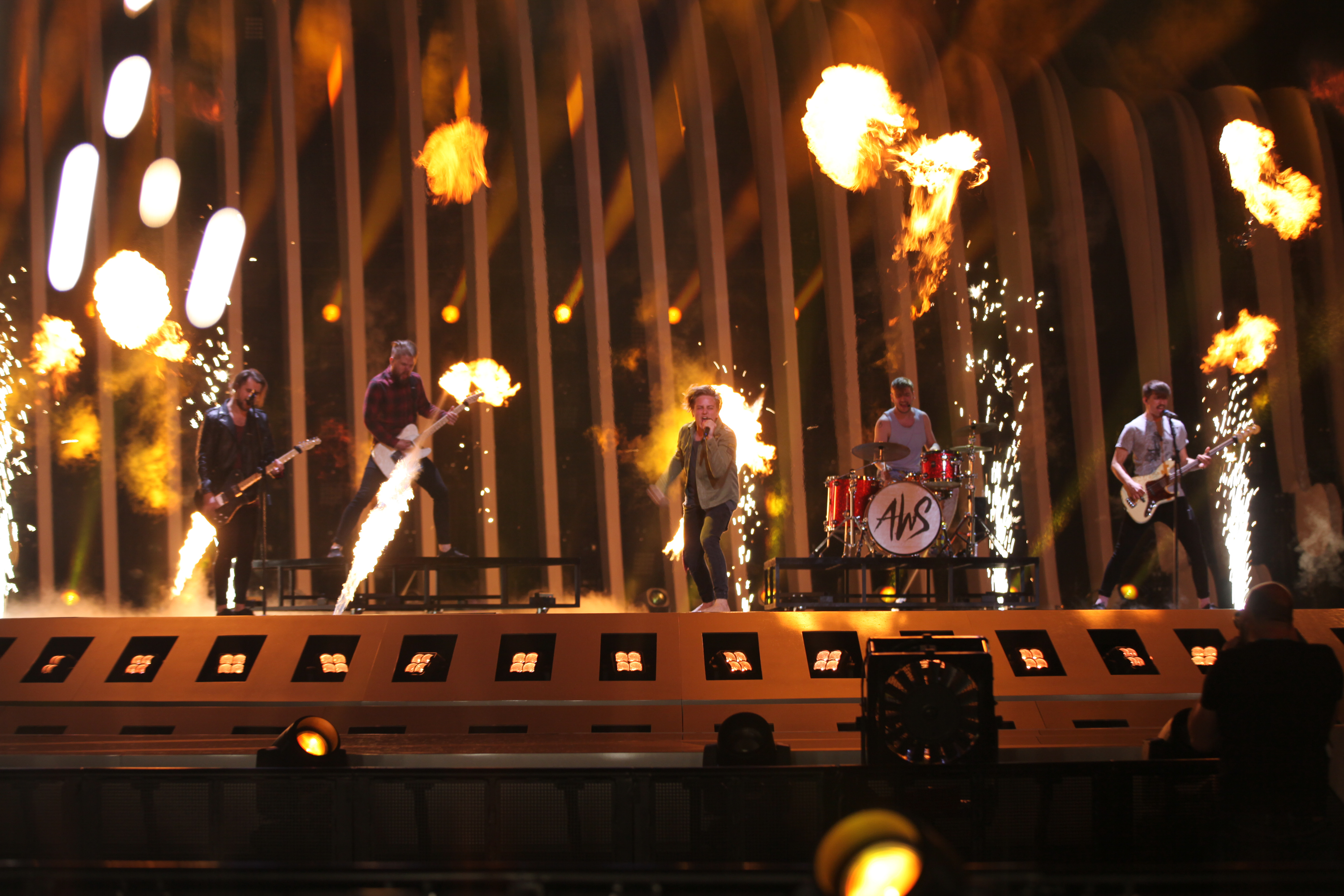 AWS representing Hungary with the song "Viszlát nyár" during a rehearsal before the second semi final of the Eurovision Song Contest 2018 in Lisbon.